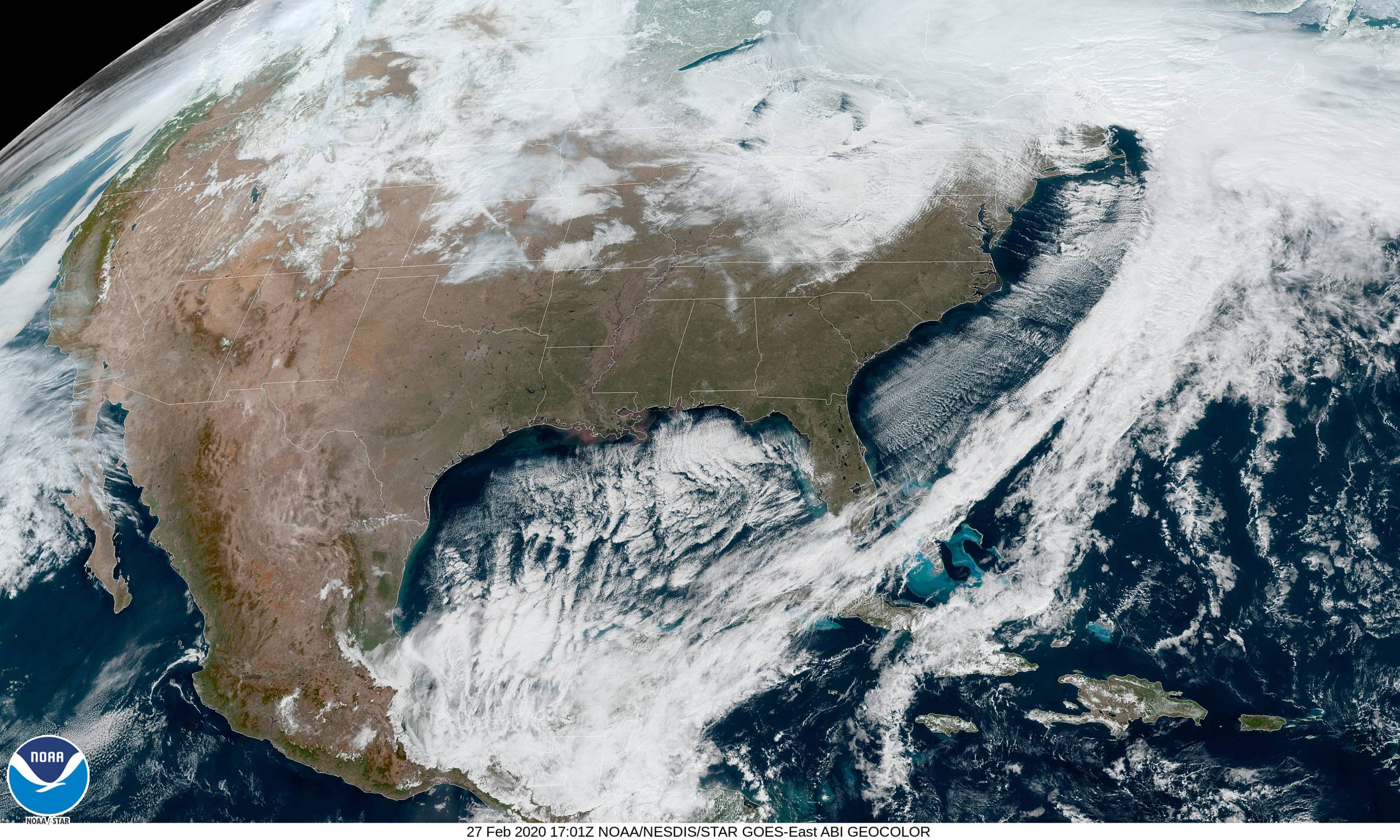 GOES-16 Satellite imagery of powerful extratropical cyclone covering the Great Lakes region at peak intensity on February 27, 2020